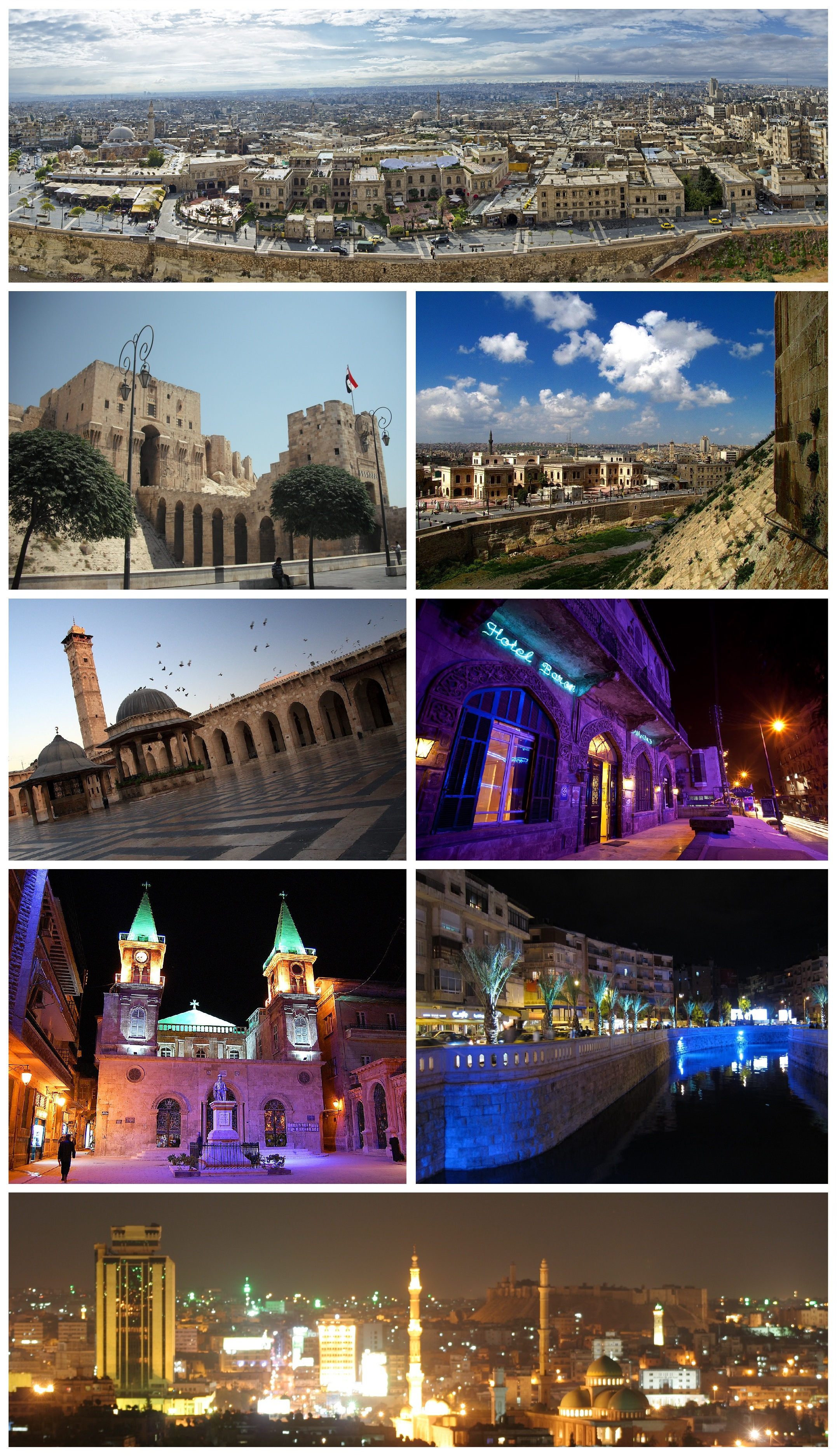 Aleppo City landmarks